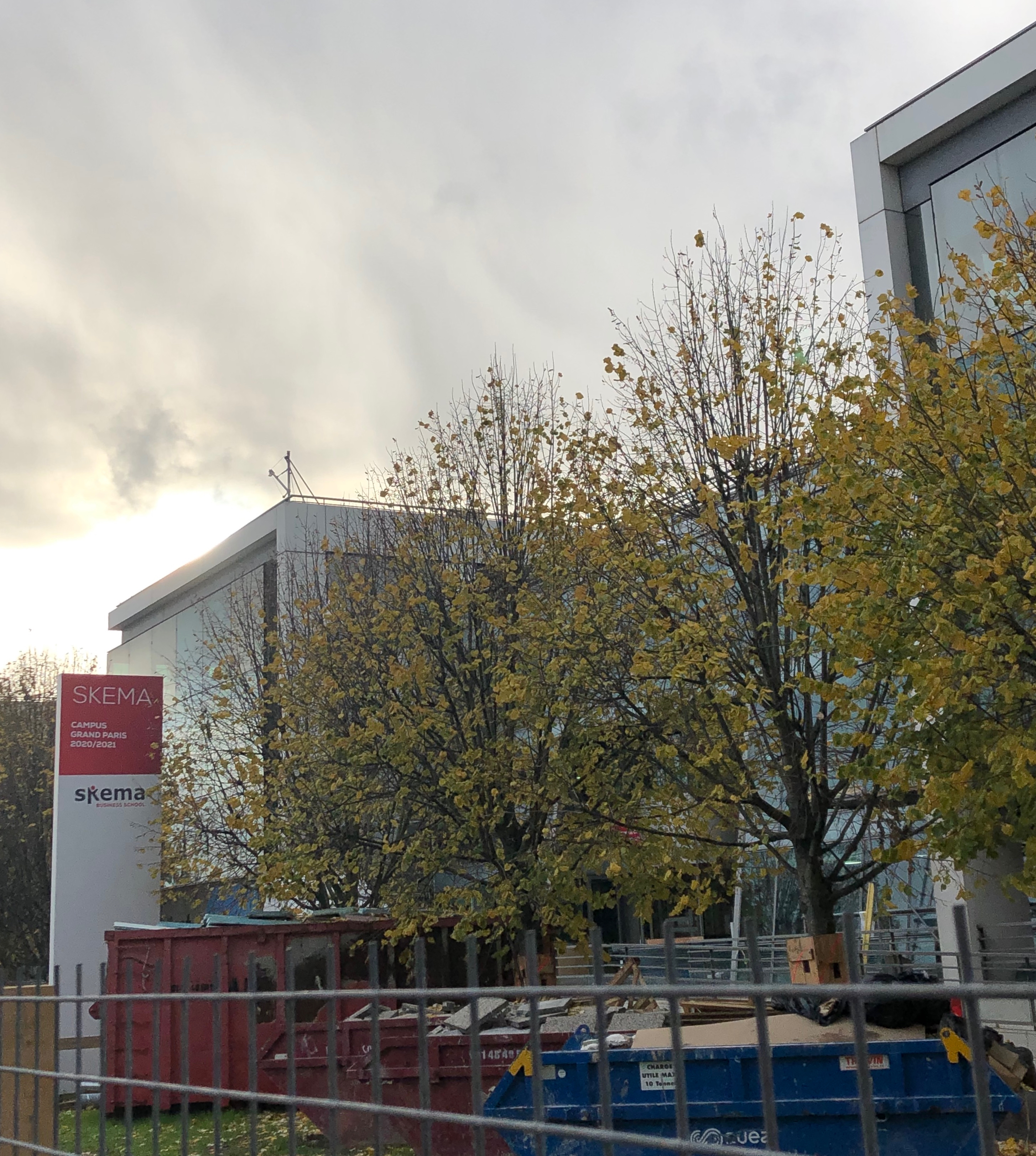 SKEMA Business School Suresnes Grand Paris Campus